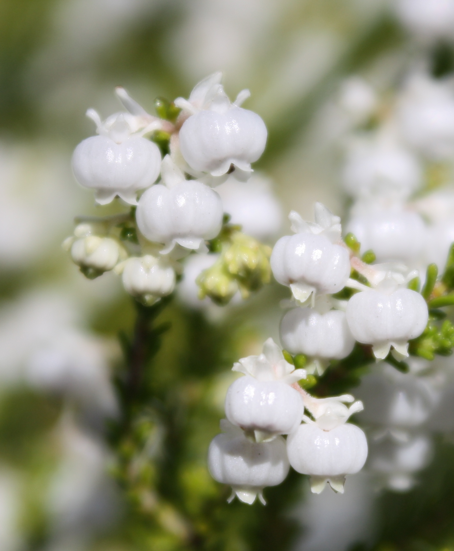 Harkerville, Western Cape